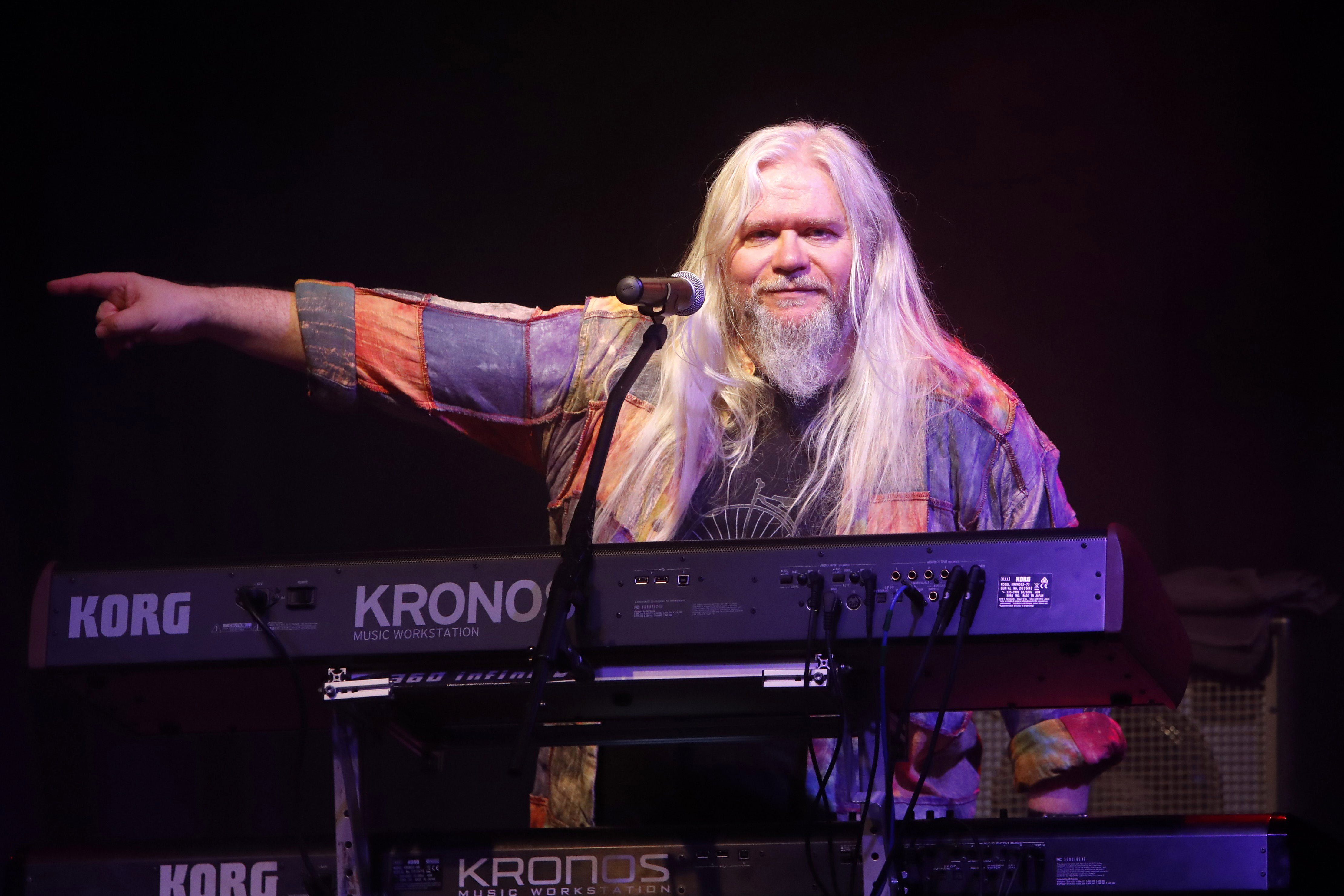 Clive Nolan at The Borderij in Zoetermeer 2018